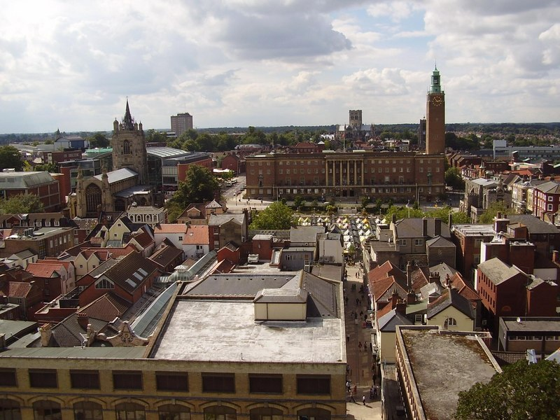 A view of the 1930s town hall and Saint Peter Mancroft church with St Johns Catholic cathedral visible in the distance. Viewed from the castle battlements.